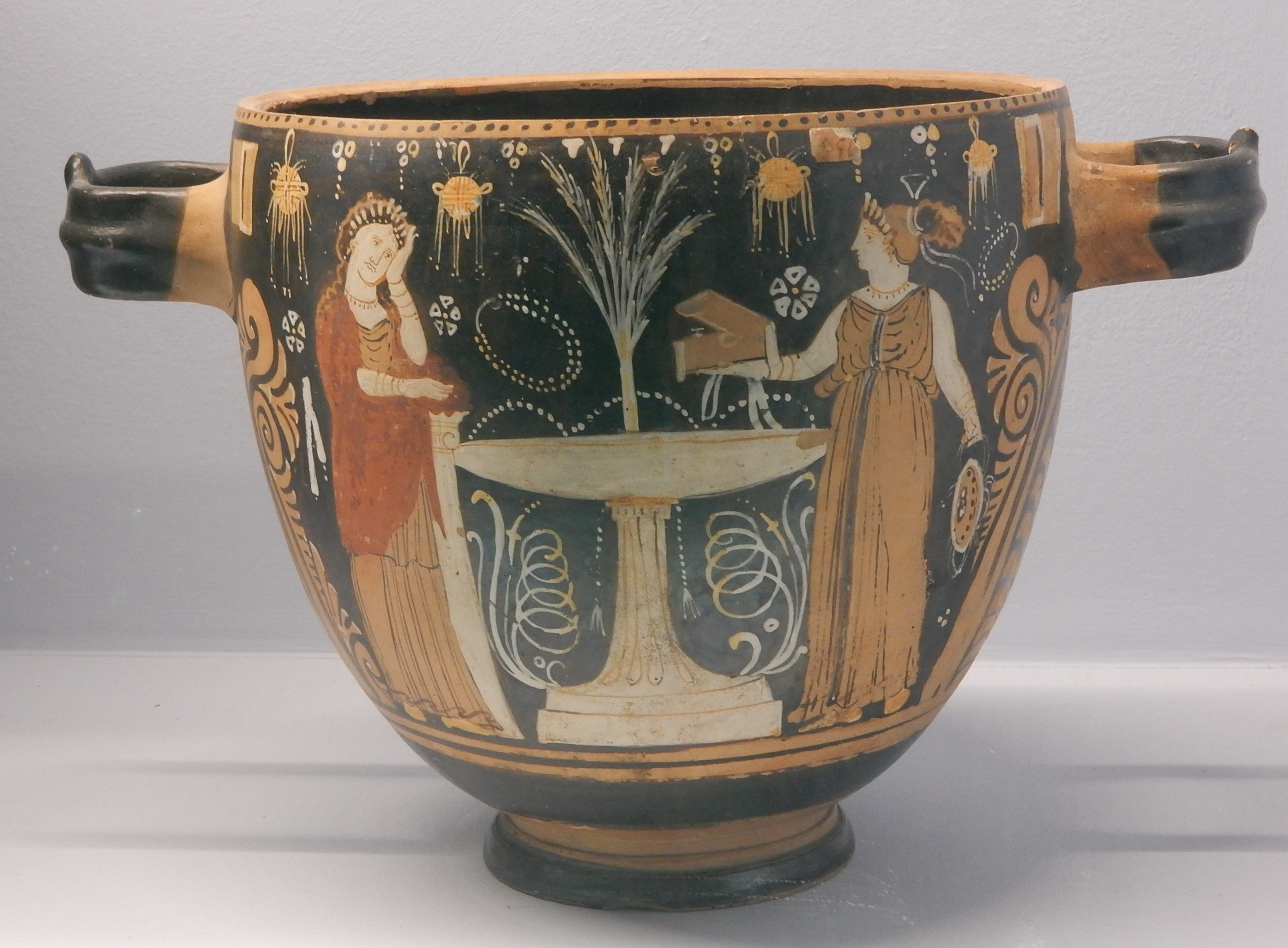 Pyxis without lid. Two women at the louterion